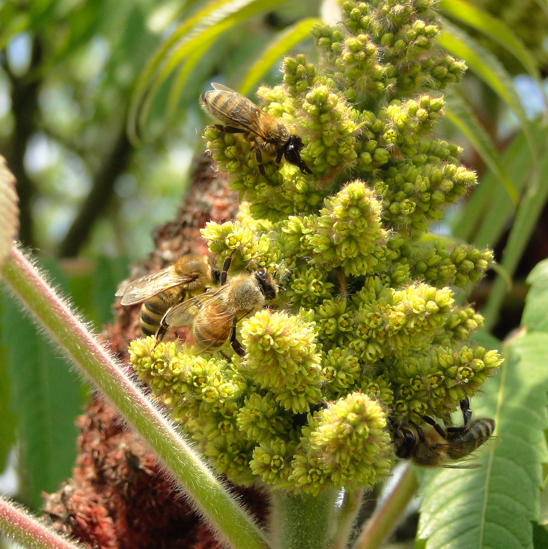 Apis mellifera pollinating a sumac (probably a staghorn sumac).